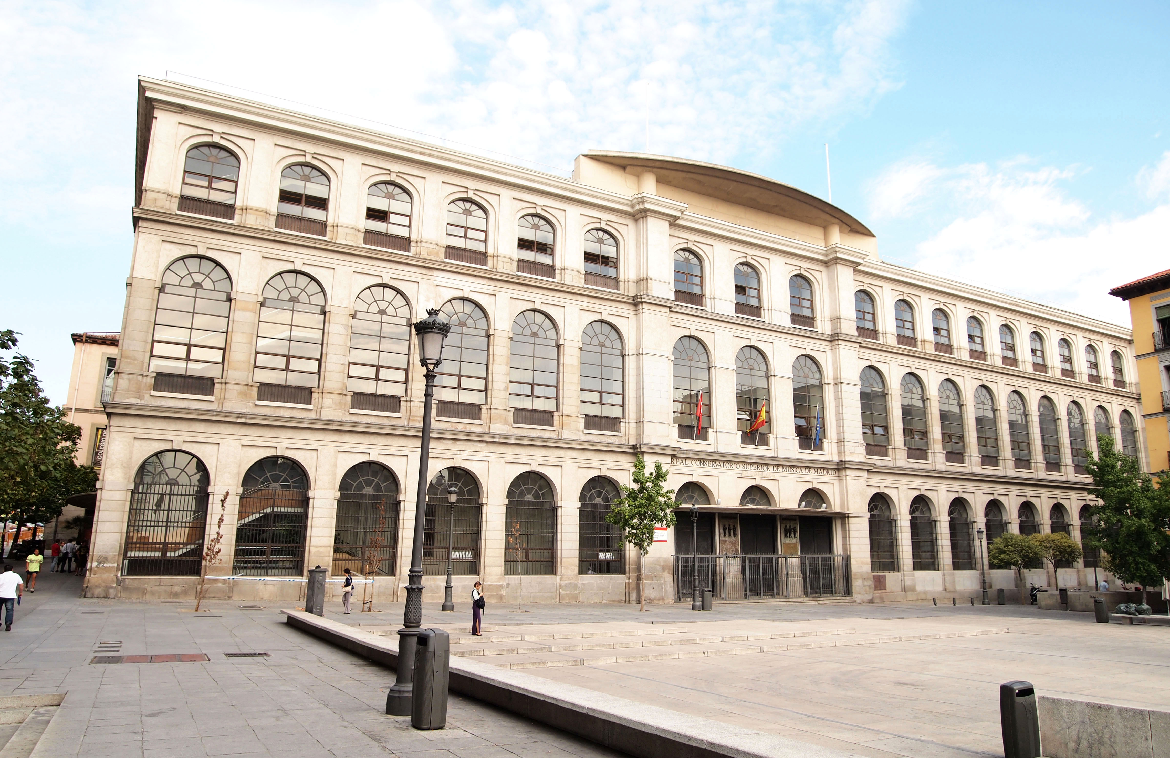 The building "Real Conservatorio Superior de Música" in Madrid. This photograph was taken with an Olympus E-PL1